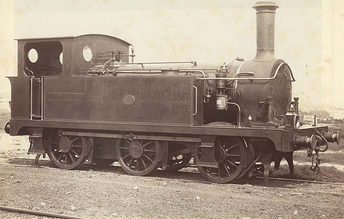 Class Z1806 (R285) locomotive Dated: c.01/01/1884 Digital ID: 17420_a014_a014000482 Rights: We'd love to hear from you if you use our photos. Many other photos in our collection are available to view and browse on our website using Photo Investigator.